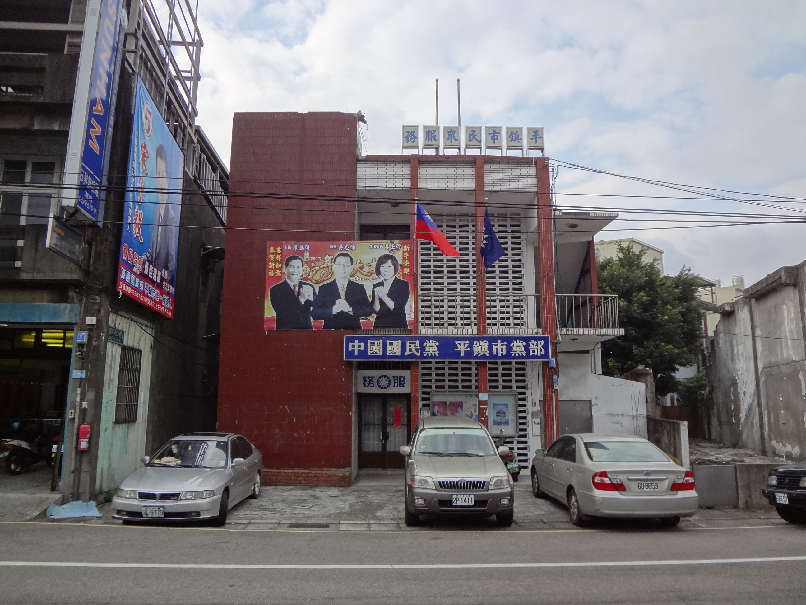 Pingzhen Division, Kuomintang Taoyuan County Committee in Pingzhen City, Taoyuan County, Taiwan.中文（台灣）: 中國國民黨桃園縣委員會平鎮市黨部與桃園縣平鎮市民眾服務社，位於臺灣桃園縣平鎮市和平路52號。